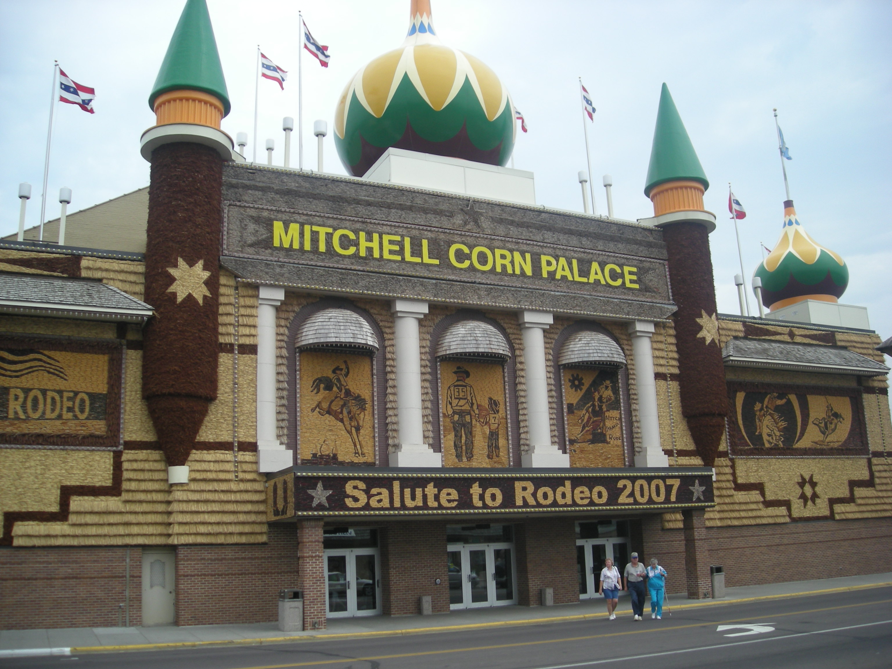 The Mitchell Corn Palace in Mitchell, South Dakota (United States).